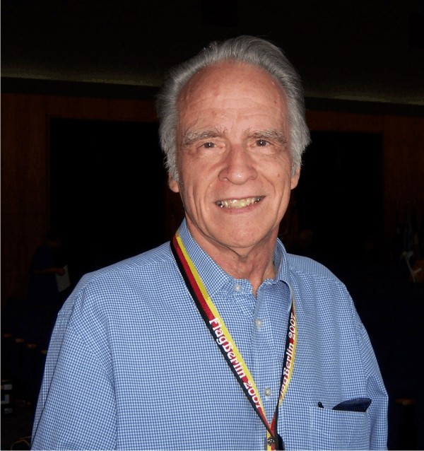 W. Smith at the 22 ICV. Berlin 2007